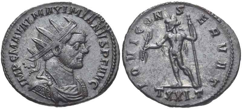 Maximianus. First reign, AD 286-305. Antoninianus (22mm, 3.80 g, 5h). Ticinum mint, 3rd officina. Struck AD 287. IMP C M AUR VAL MAXIMIANUS PF AUG, Radiate, draped, and cuirassed bust right IOVI CONS-ERVAT, Jupiter standing facing, head left, holding scepter and thunderbolt; T XXI T. RIC V 558.